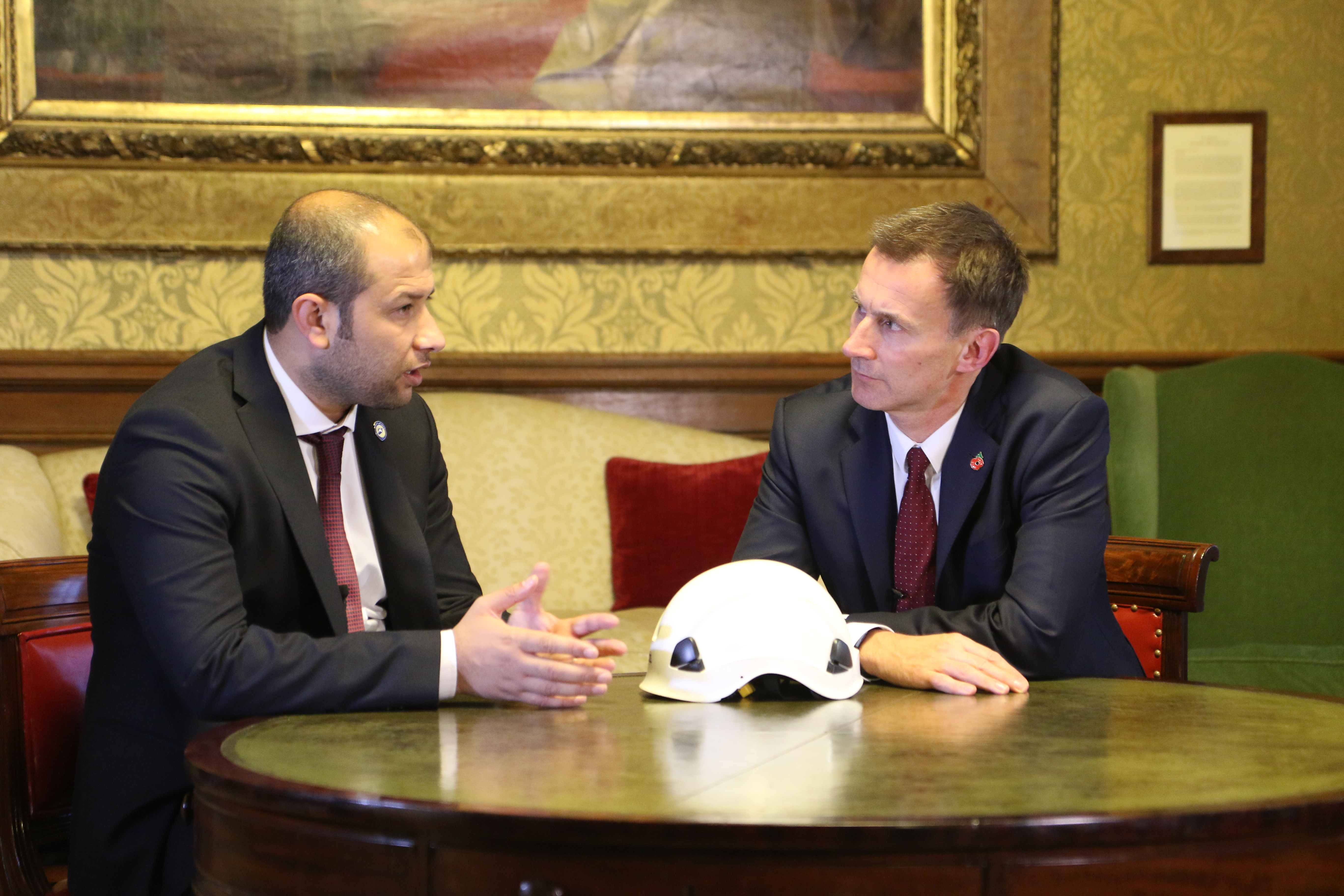 Foreign Secretary Jeremy Hunt meeting Raed al-Saleh, the leader of the Syrian Civil Defence (White Helmets) in London, 1 November 2018. Read more